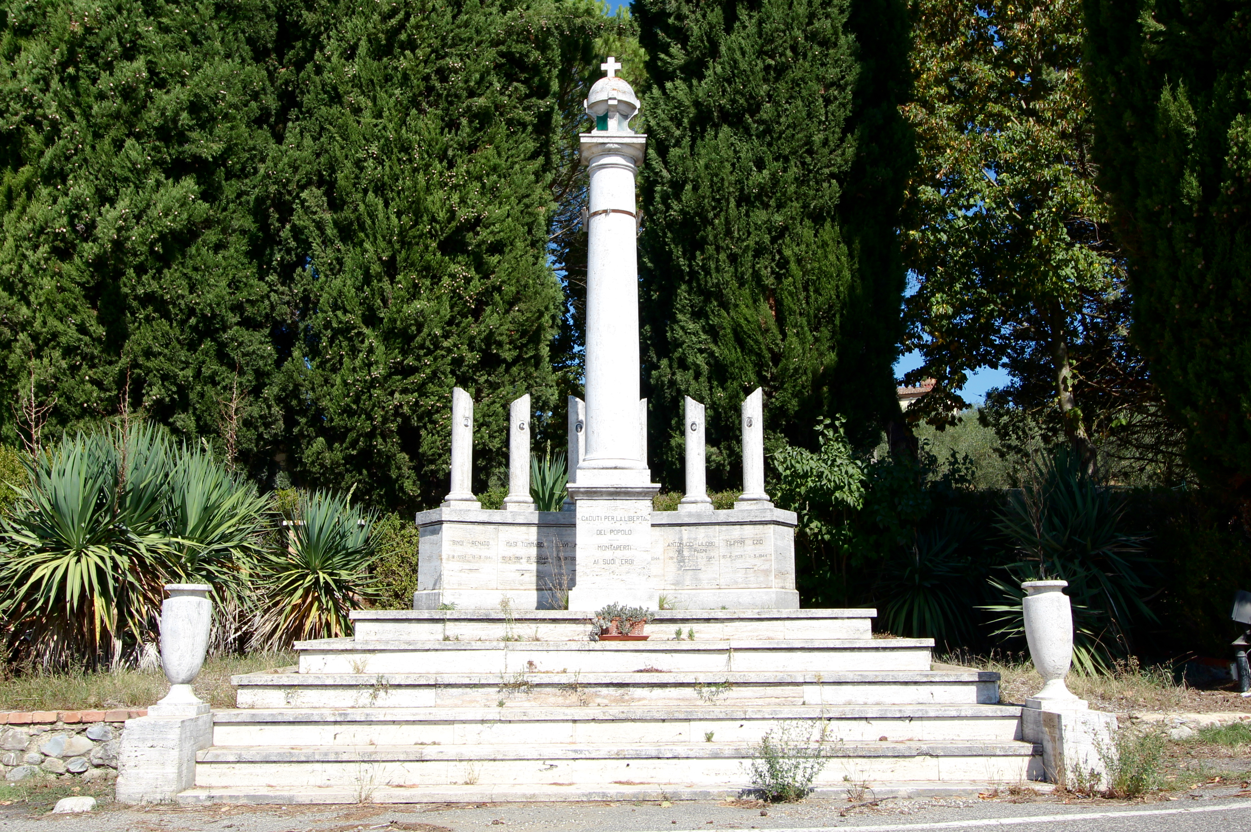 World War II memorial Monumento ai Caduti (also: Monumento dei martiri di Montaperti, Caduti per la libertà del popolo) in Monteaperti (Montaperti), hamlet of Castelnuovo Berardenga, Province of Siena, Tuscany, Italy